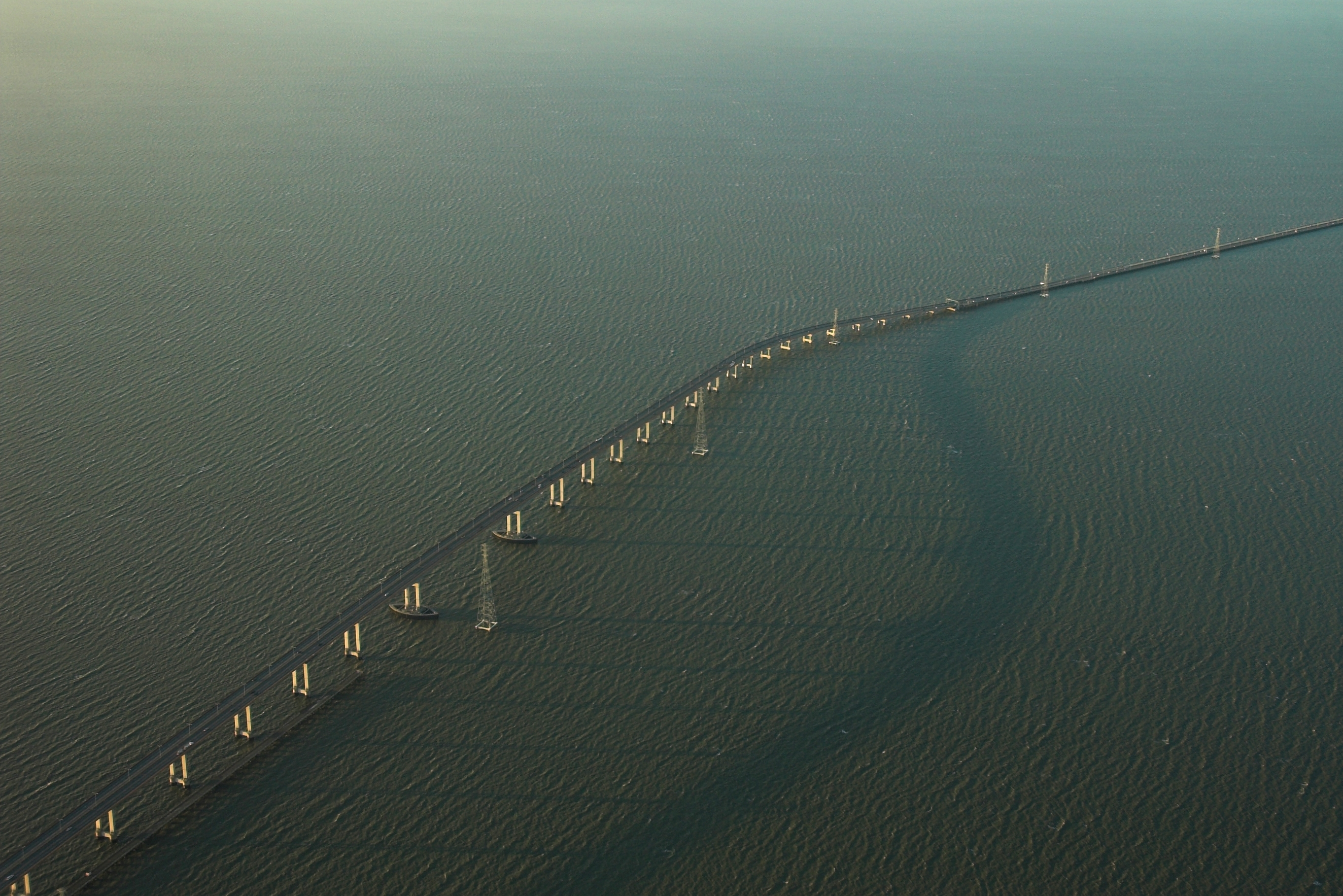 San Mateo-Hayward Bridge crossing San Francisco Bay, USA